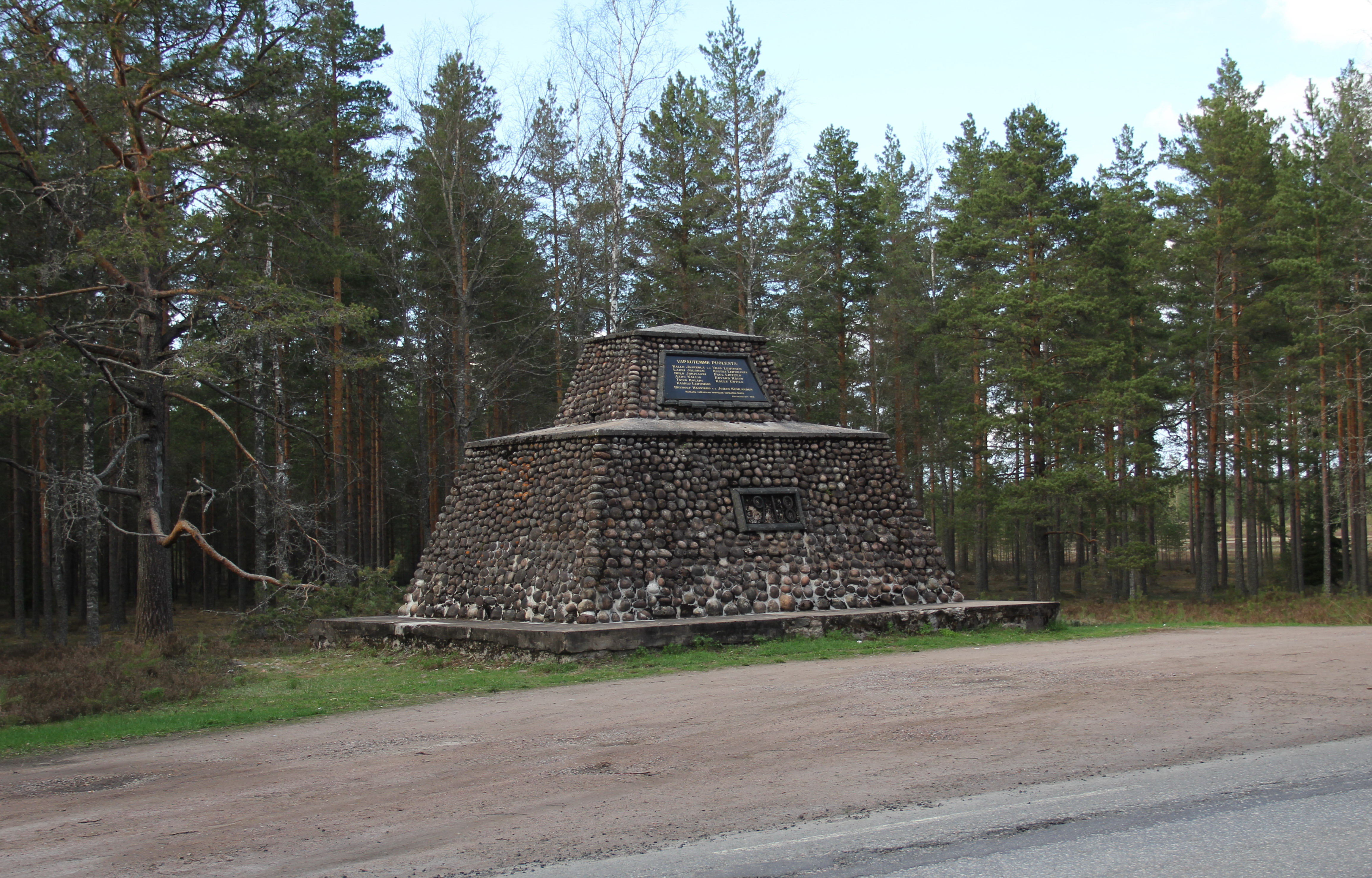 Memorial of White Guard members died in 1918, Oripää, Finland. - Memorial is designed by finnish sculptor Väinö Rikhard Rautalin and erected in 1932.